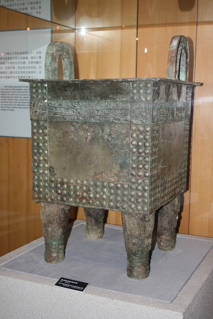 Bronze fangding, Zhengzhou site, Erligang culture. Henan Provincial Museum